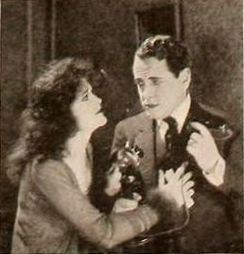 Still for the American drama film Would You Forgive? (1920) with Vivian Rich and Tom Chatterton, on page 2925 of the March 27, 1920 Motion Picture News.